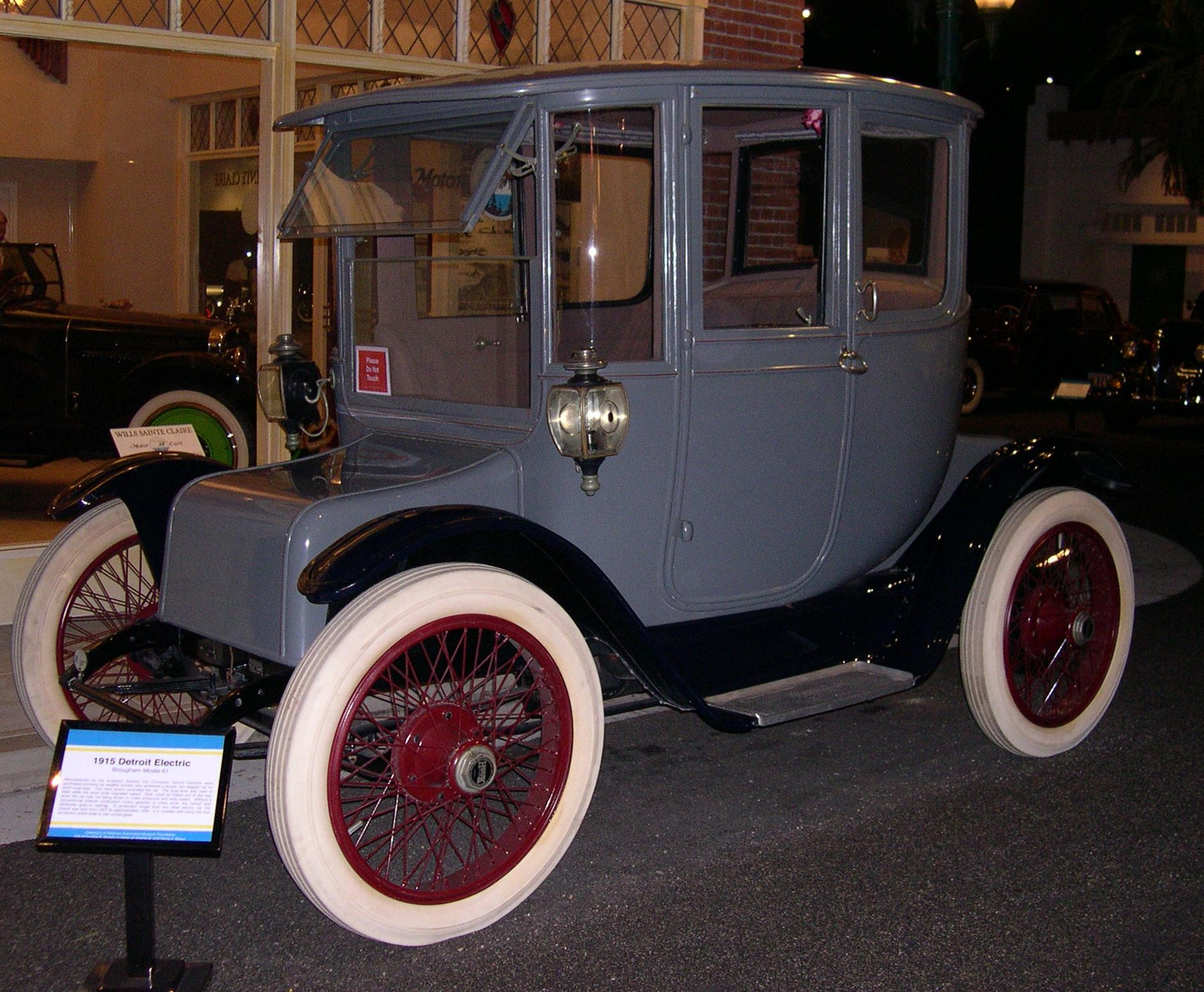 1915 Detroit Electric Model 61 Rear-drive Brougham From the Petersen Automotive Museum, Los Angeles, CA